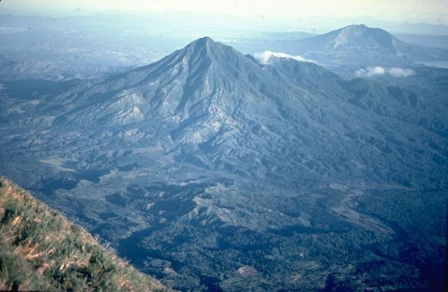 Masaraga is a sharp-topped forested stratovolcano that rises to 1328 m NW of Mayon volcano. This view from near the summit of Mayon also shows Mount Iriga a (upper right), with its large breached crater. Little is known of the geologic history of Masaraga volcano.